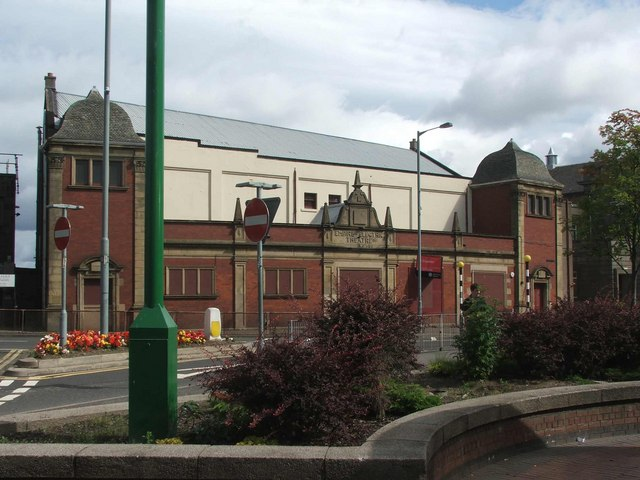 Disused cinema Built as the “Empire Electric Theatre” this building dwindled into a Bingo Hall and has now closed.